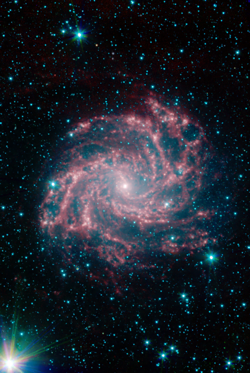 Image Credit: NASA/JPL-Caltech/R. Kennicutt (U. of Ariz./Inst. of Astr., U. of Cambridge) and the SINGS Team Instrument: IRAC, Spitzer Space Telescope Wavelength: 3.6 (blue), 4.5 (green), 5.8-8.0 (red) microns